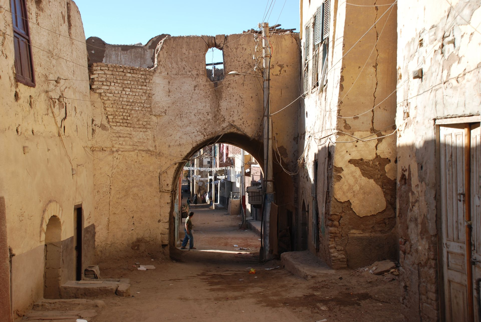 Aswan, Egypt, old city